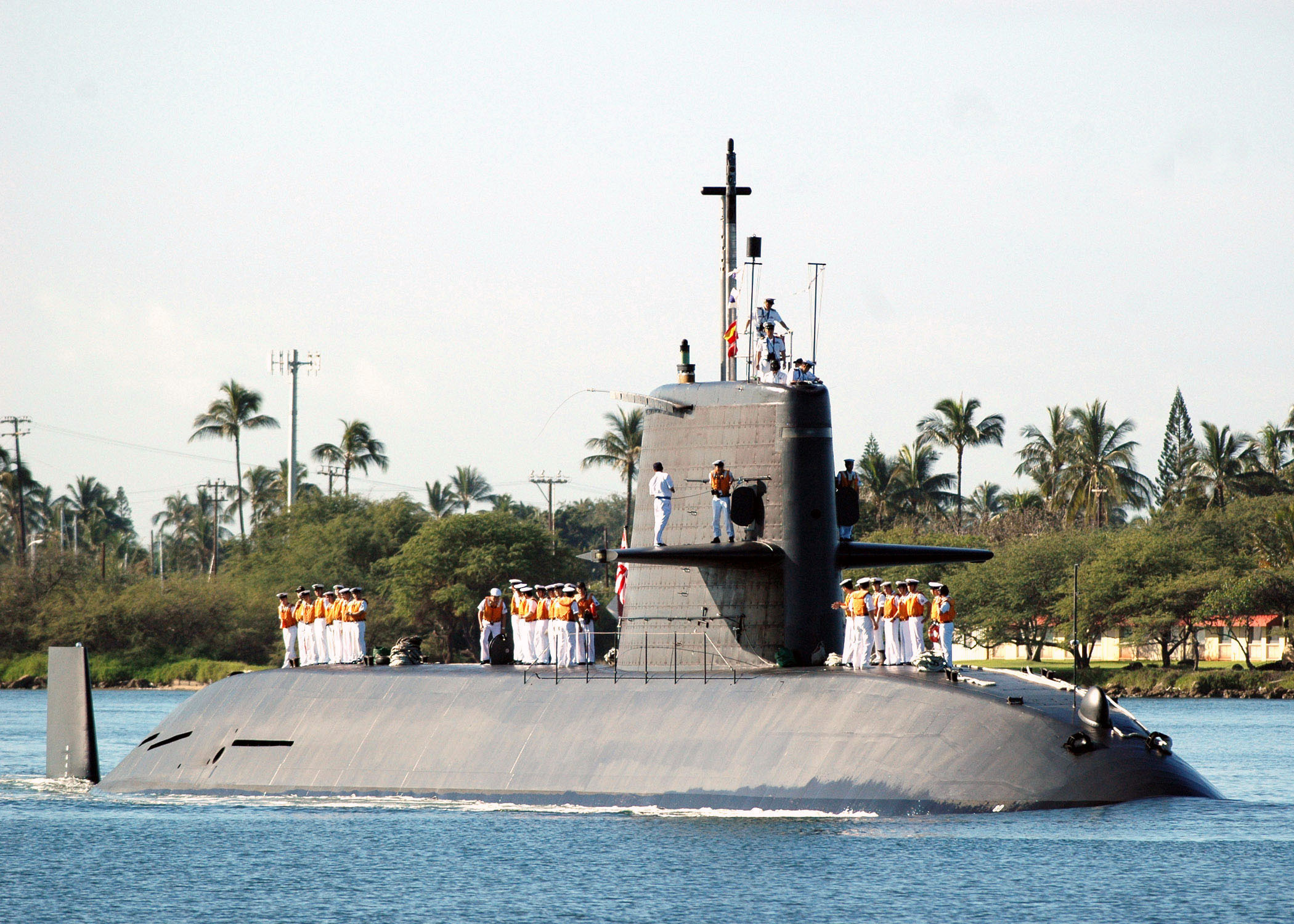 060130-N-3019M-006 Pearl Harbor, Hawaii (Jan. 30, 2006) - The Japanese Maritime Self-Defense Force (JMSDF) submarine Defense Ship (JDS) Oyashio, lead submarine of the Oyashio class, navigates through the Pearl Harbor channel. Oyashio will be conducting exercises and training with the U.S. Navy in the Pearl Harbor region. U.S. Navy photo by Journalist 2nd Class Ryan C. McGinley (RELEASED)